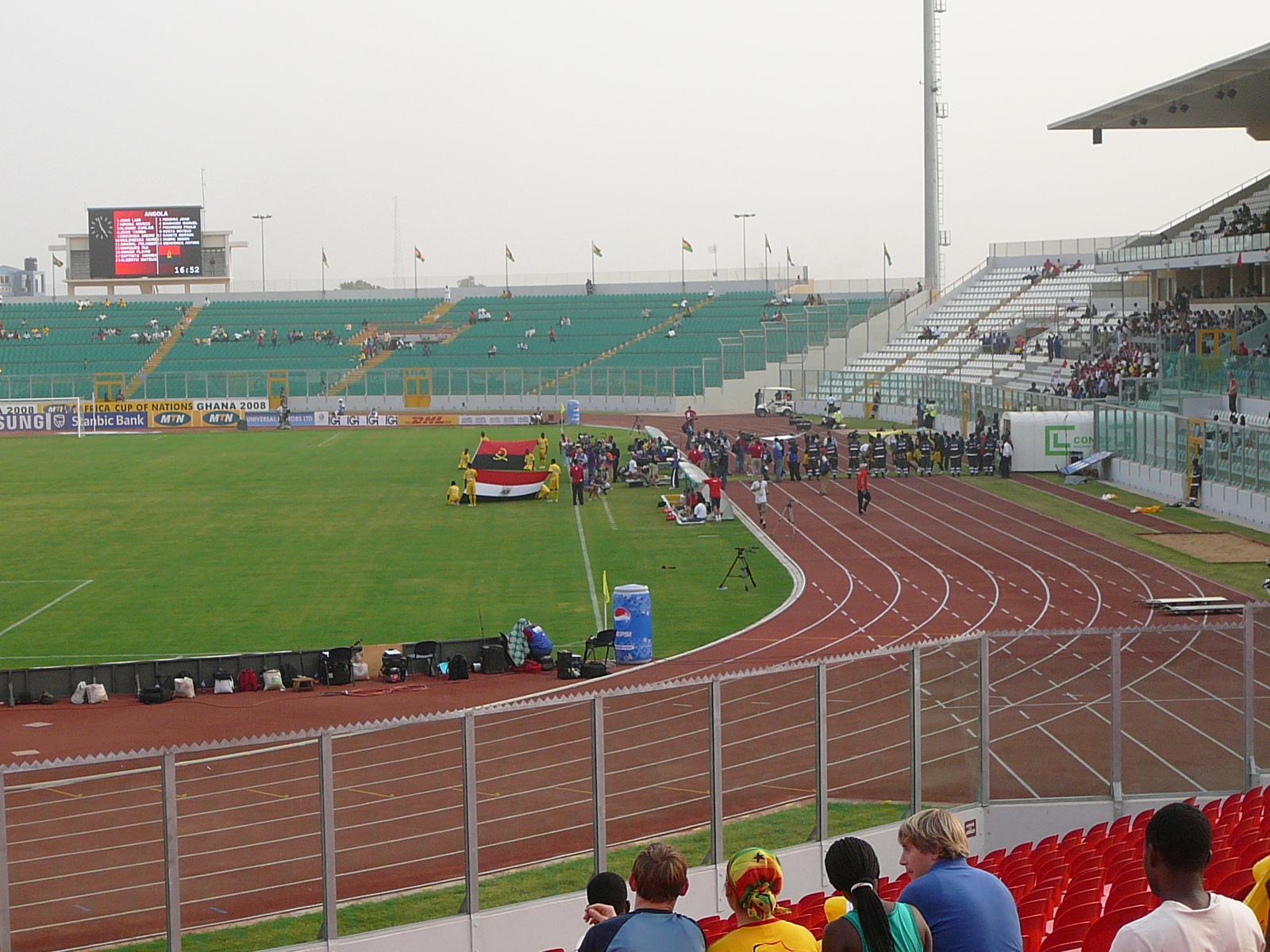 Kumasi, Baba Yara Stadium Quarterfinal Africa Cup 2008 (Egypt : Angola)